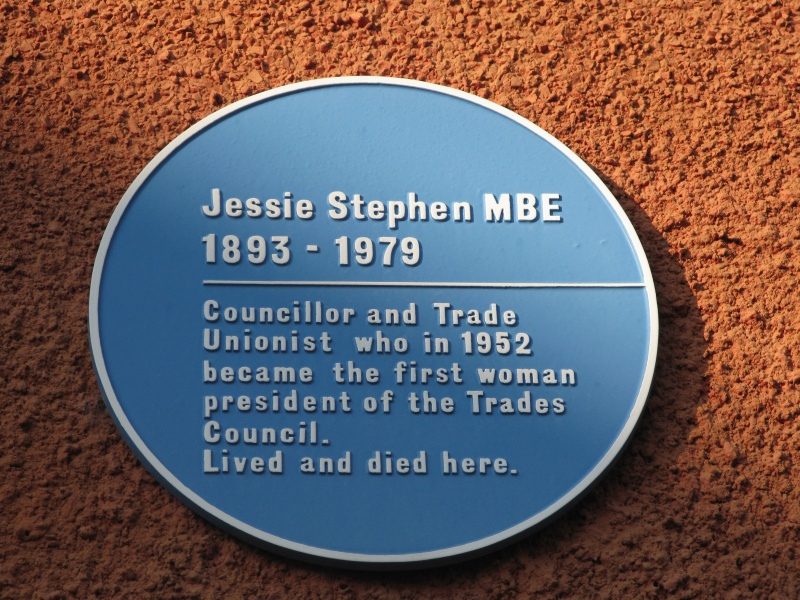 Blue plaque for Jessie Stephen MBE (1893-1979) in Chessel Street, Bristol. Councillor and Trade Unionist who in 1952 became the first woman president of the Trades Council. Lived and died here.